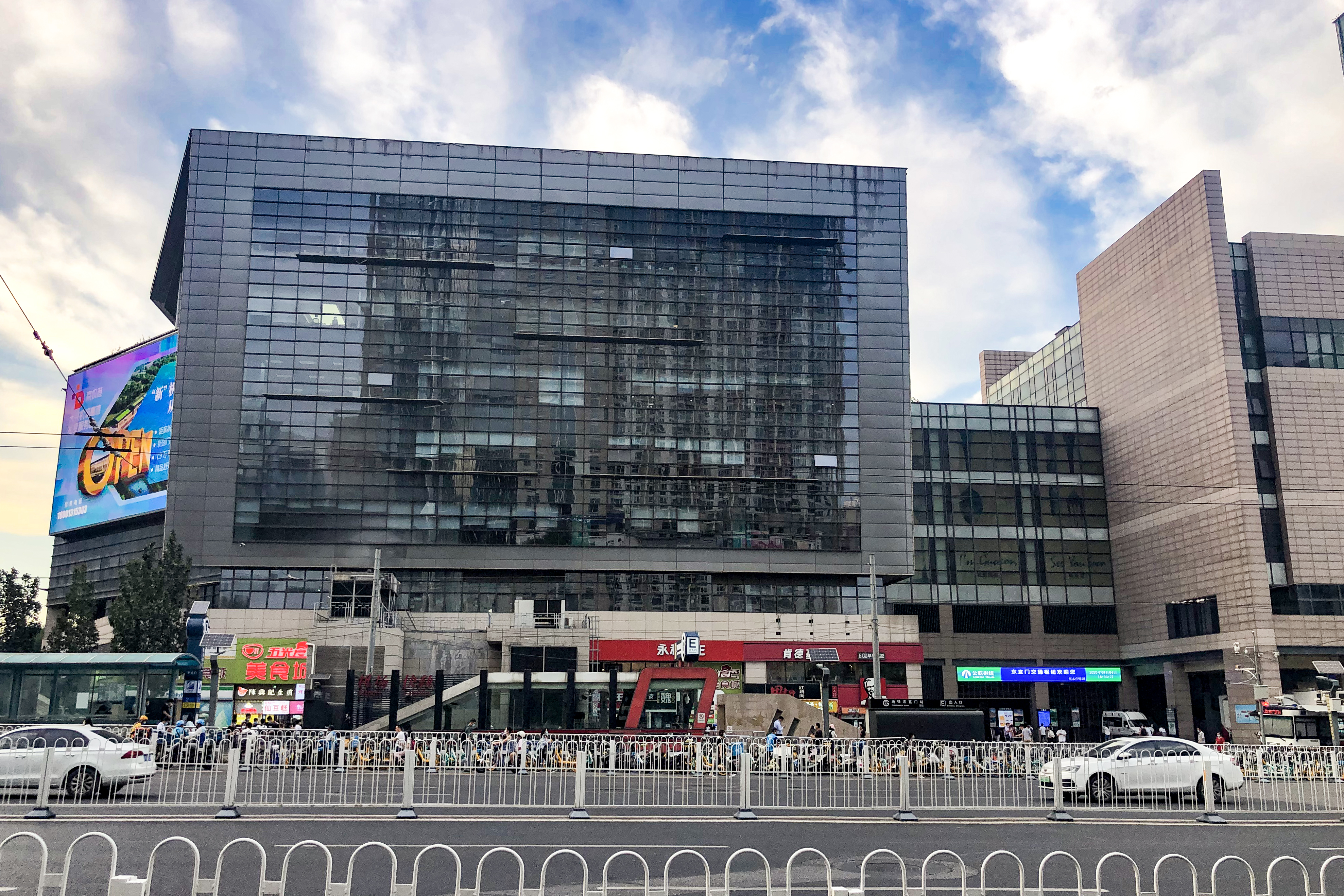 Will that "ghost building" complete by 2022?